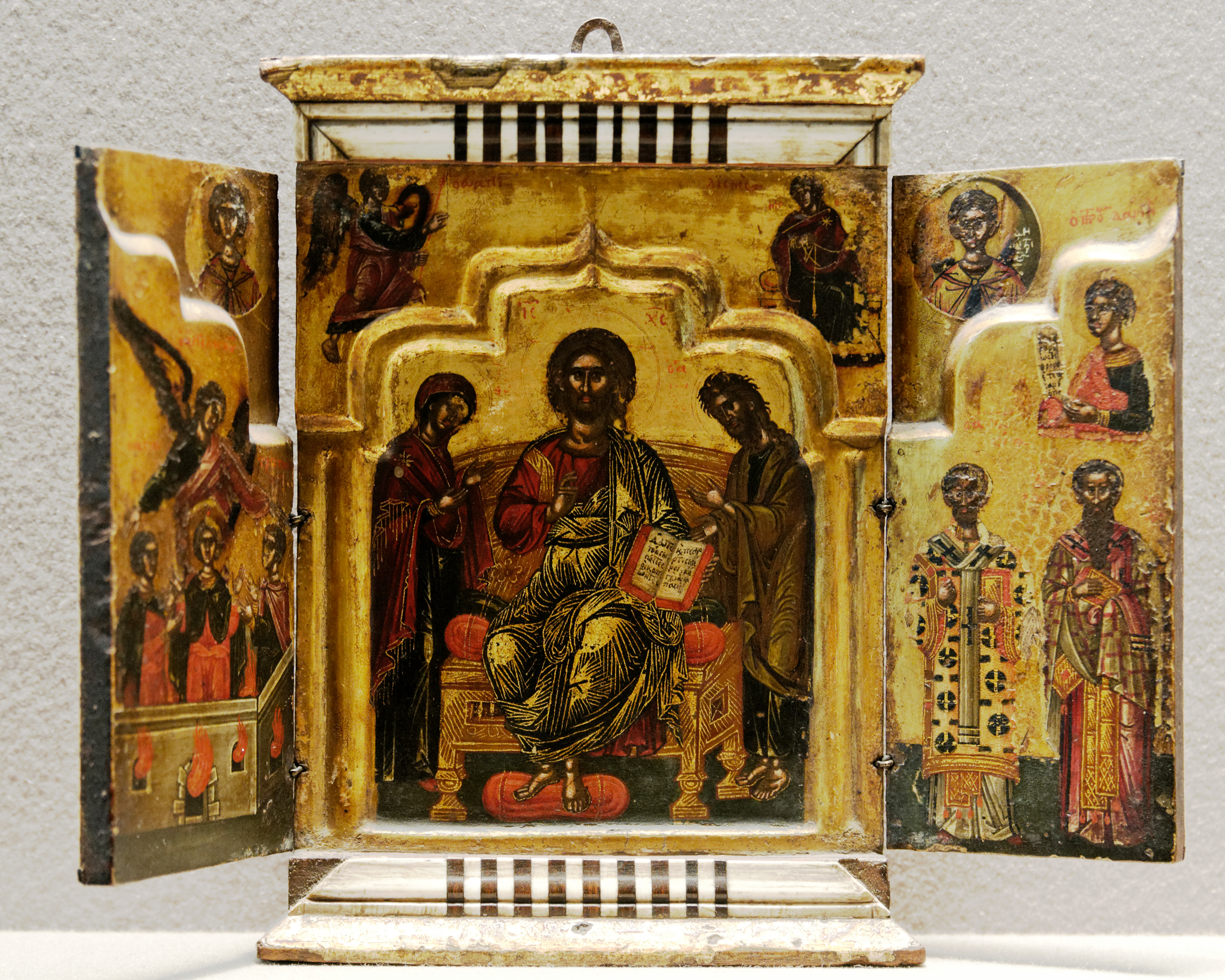 Triptych with the Three Children in the Furnace (left), a Deesis (centre) and Saints George, Demetrios, John Chrysostom and Basil.